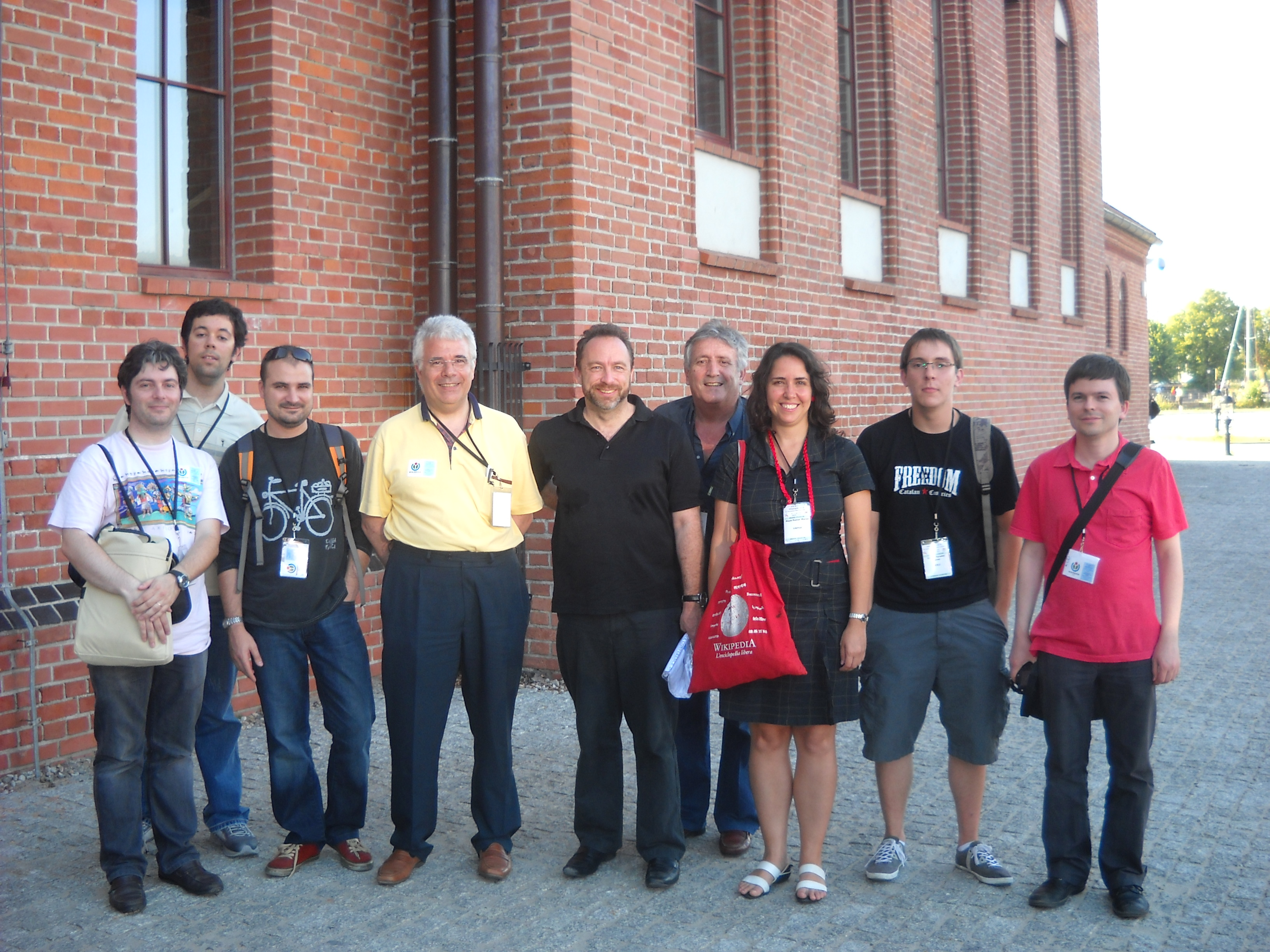 Gdansk Wikimania 2010 Jimmy Wales with the Catalan representation.. From left to right: Capsot, Góngora, Paucabot, Gomà, Jimbo, Mcapdevila, xx?,KRLS,Cdani (1st editor of the 1st non-english wiki)